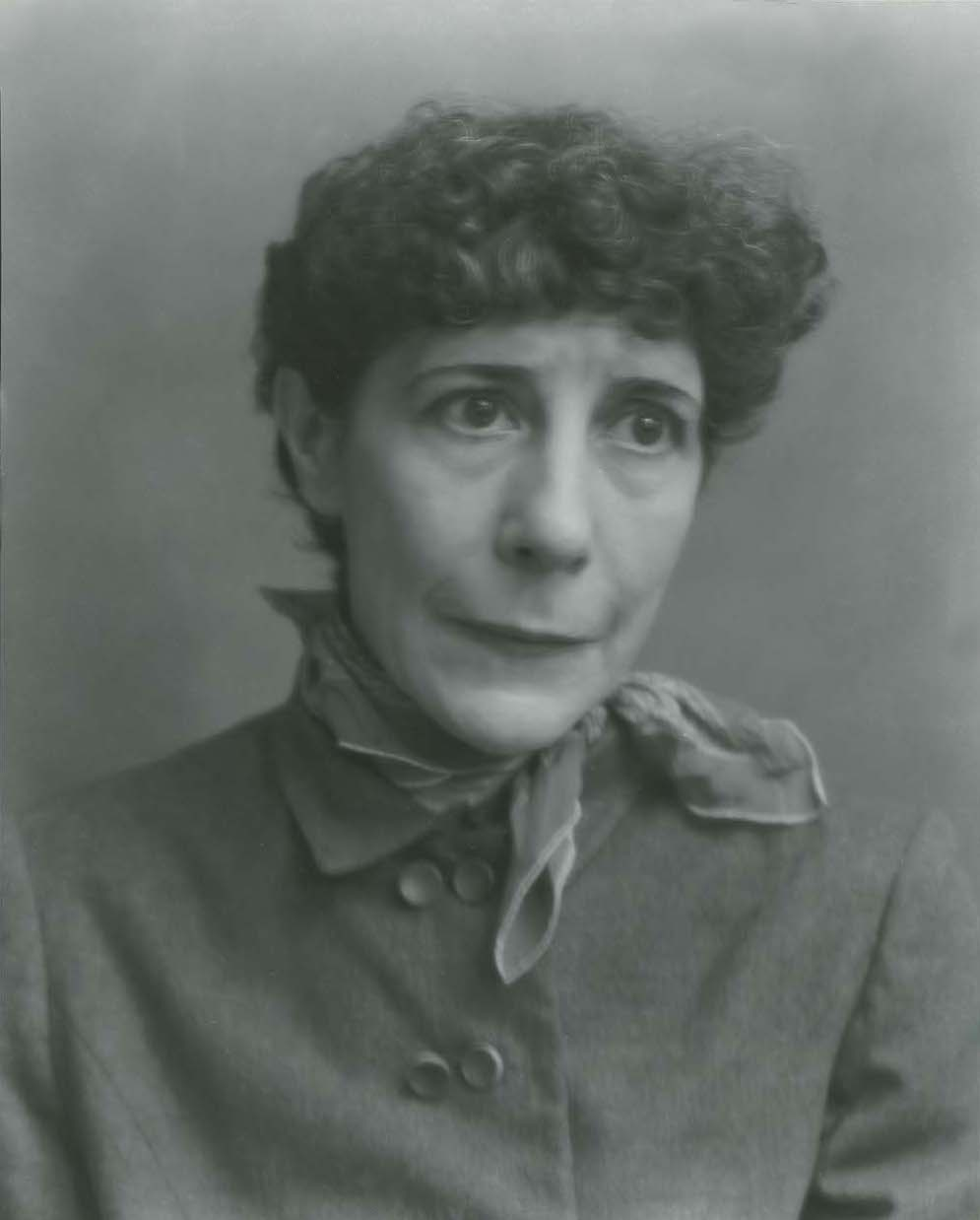 Description: Concetta Scaravaglione had a long career as both a sculptor and a teacher. While she worked in wood, stone, bronze, and copper, her preferred media was terra-cotta. As her work evolved, it became more abstract. She taught at New York University, Black Mountain College, Sarah Lawrence College, the Educational Alliance and Vassar College. Creator/Photographer: Peter A. Juley & Son Medium: Black and white photographic print Dimensions: 8 in x 10 in Culture: American Persistent URL: [1] Repository: Archives of American Art Native nameArchives of American ArtParent institutionSmithsonian InstitutionLocationWashington, D.C.Coordinates38° 53′ 52.44″ N, 77° 01′ 21.72″ W Established1954Web page control : Q2860568 VIAF: 151134814 ISNI: 0000 0001 2185 0758 LCCN: n79065944 NLA: 35007823 GND: 1085306631 WorldCat Collection: Peter A. Juley & Son Collection - The Peter A. Juley & Son Collection is comprised of 127,000 black-and-white photographic negatives documenting the works of more than 11,000 American artists. Throughout its long history, from 1896 to 1975, the Juley firm served as the largest and most respected fine arts photography firm in New York. The Juley Collection, acquired by the Smithsonian American Art Museum in 1975, constitutes a unique visual record of American art sometimes providing the only photographic documentation of altered, damaged, or lost works. Included in the collection are over 4,700 photographic portraits of artists. Accession number: J0002149